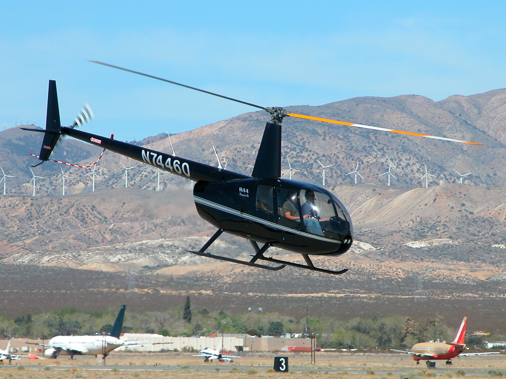 Robinson R44 takes off from the Mojave Spaceport